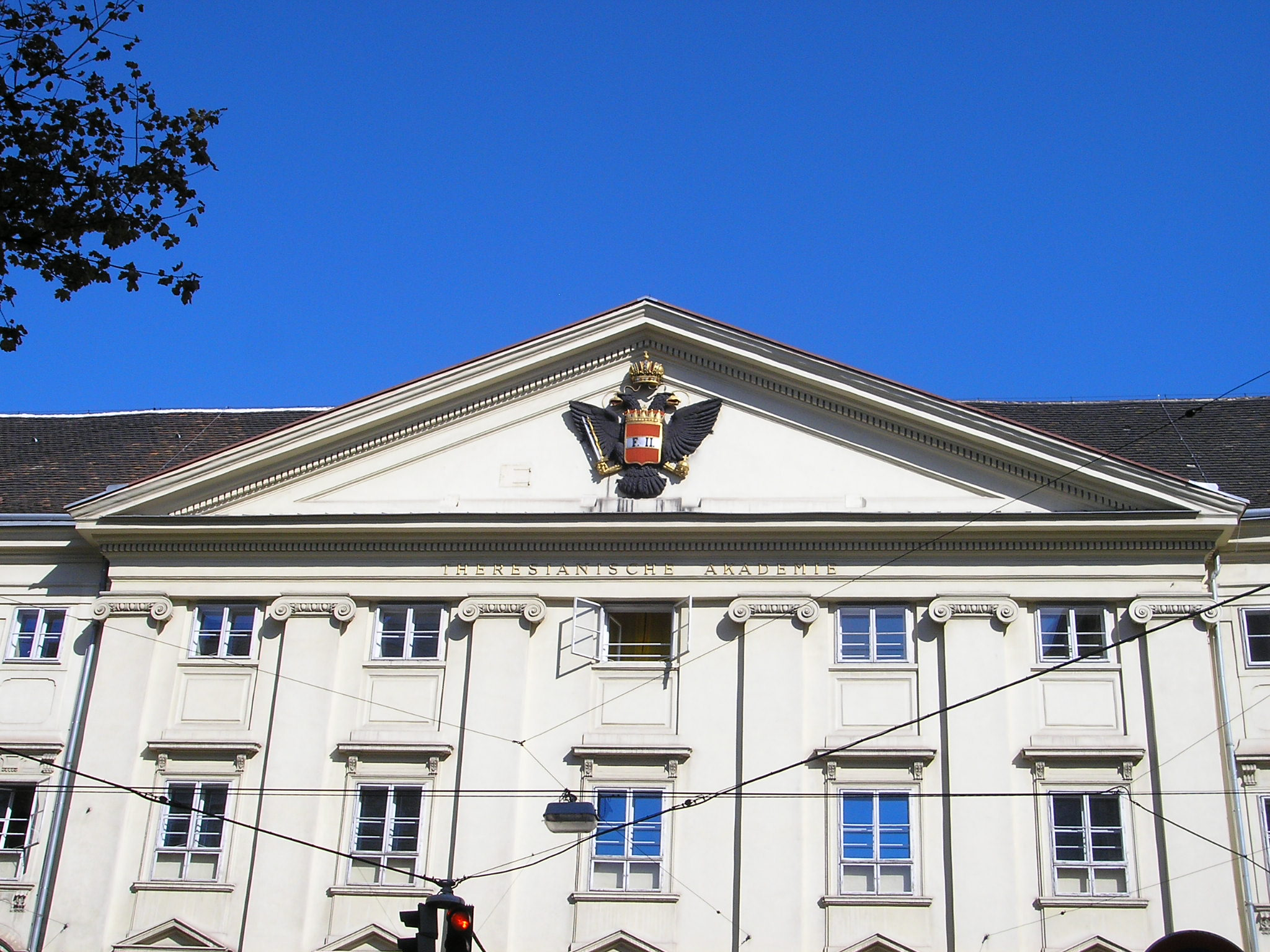 Image of the Alte Favorita palace, until 1746 the private palace of the Habsburg family, today housing the elite Theresianum Gymnasium and the Diplomatic Academy of Vienna. Building is therefore sometimes also known generally as Theresianum.